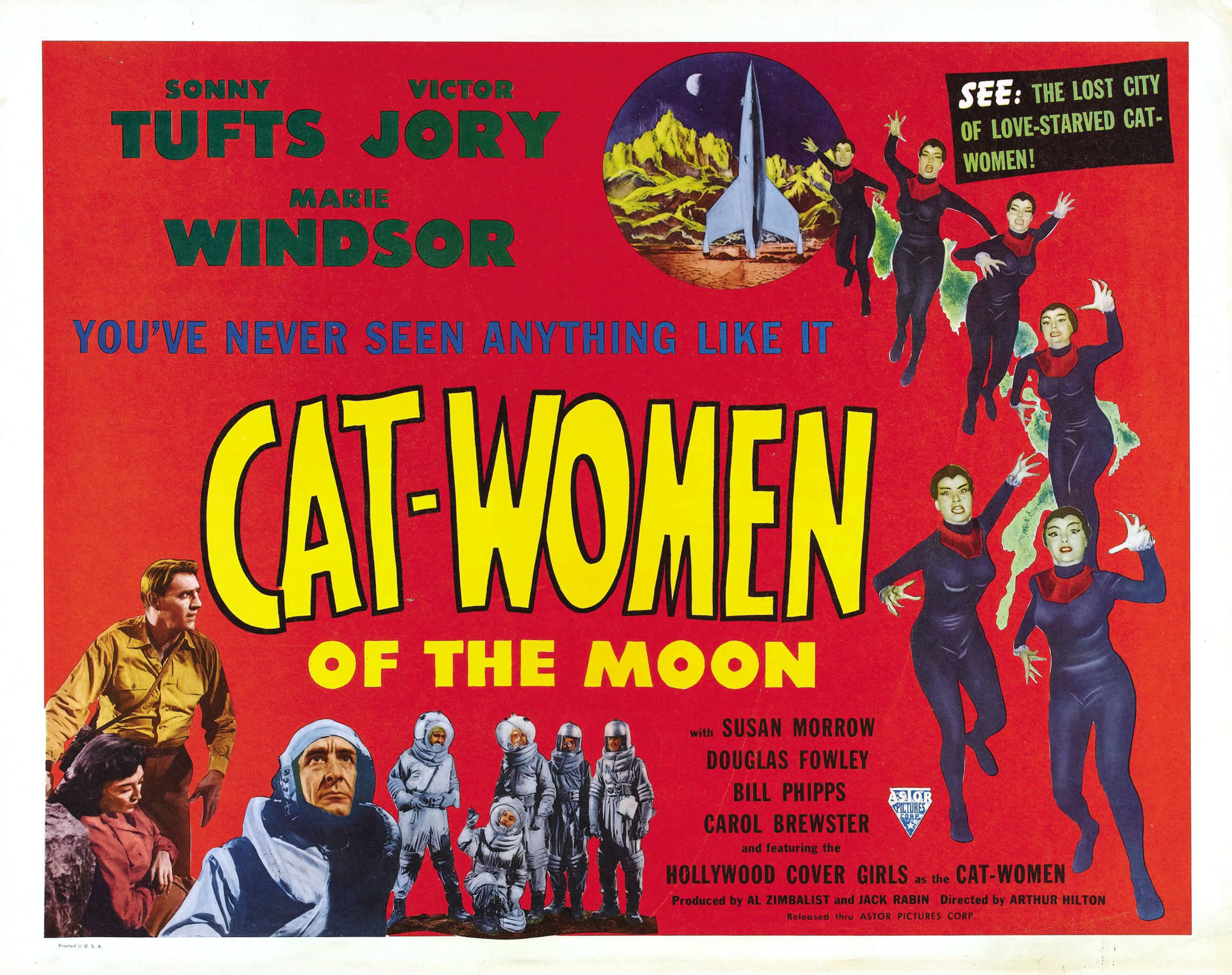 promotional poster for Cat-Women of the Moon